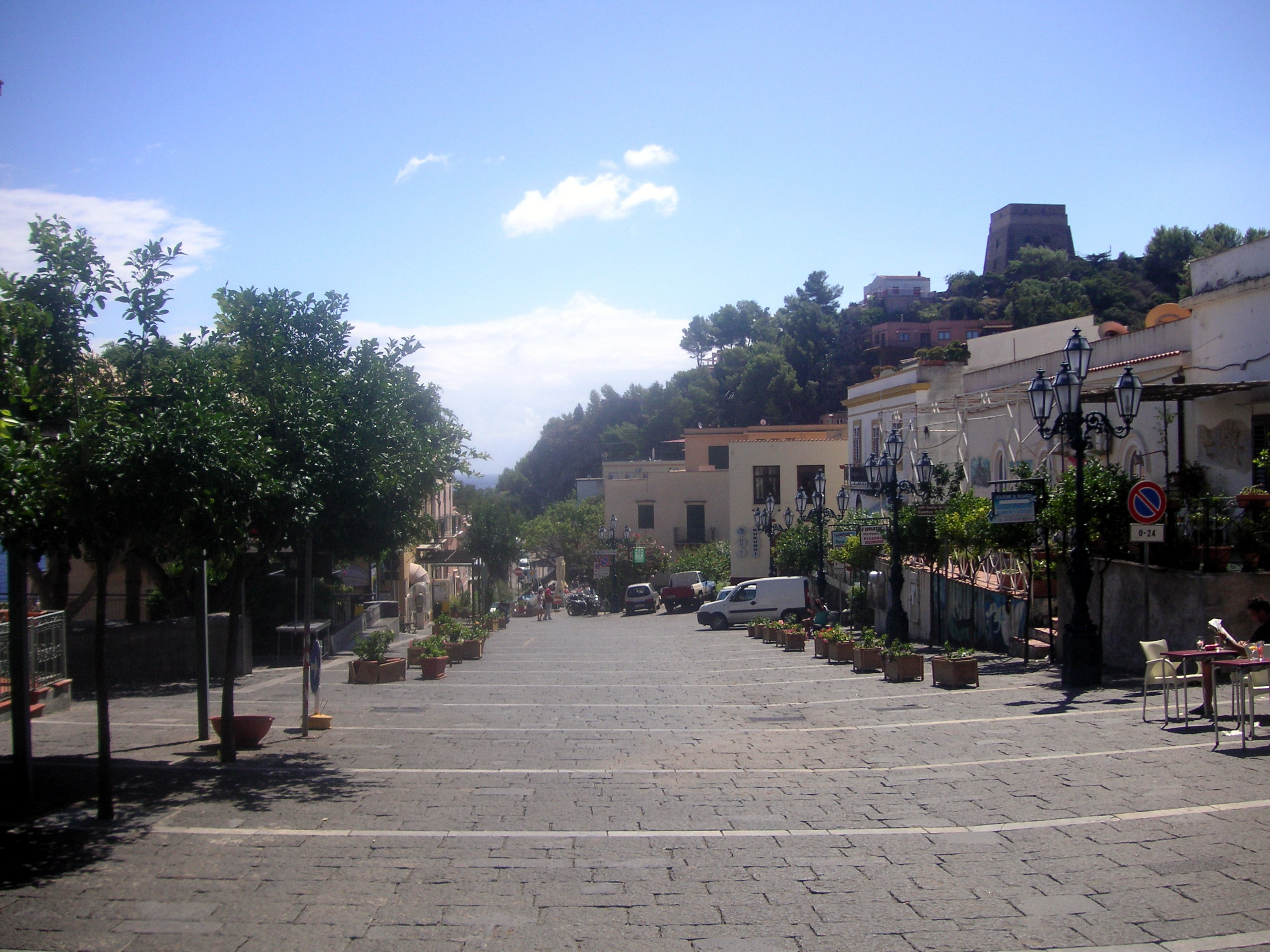 One of streets in Ustica's centre.